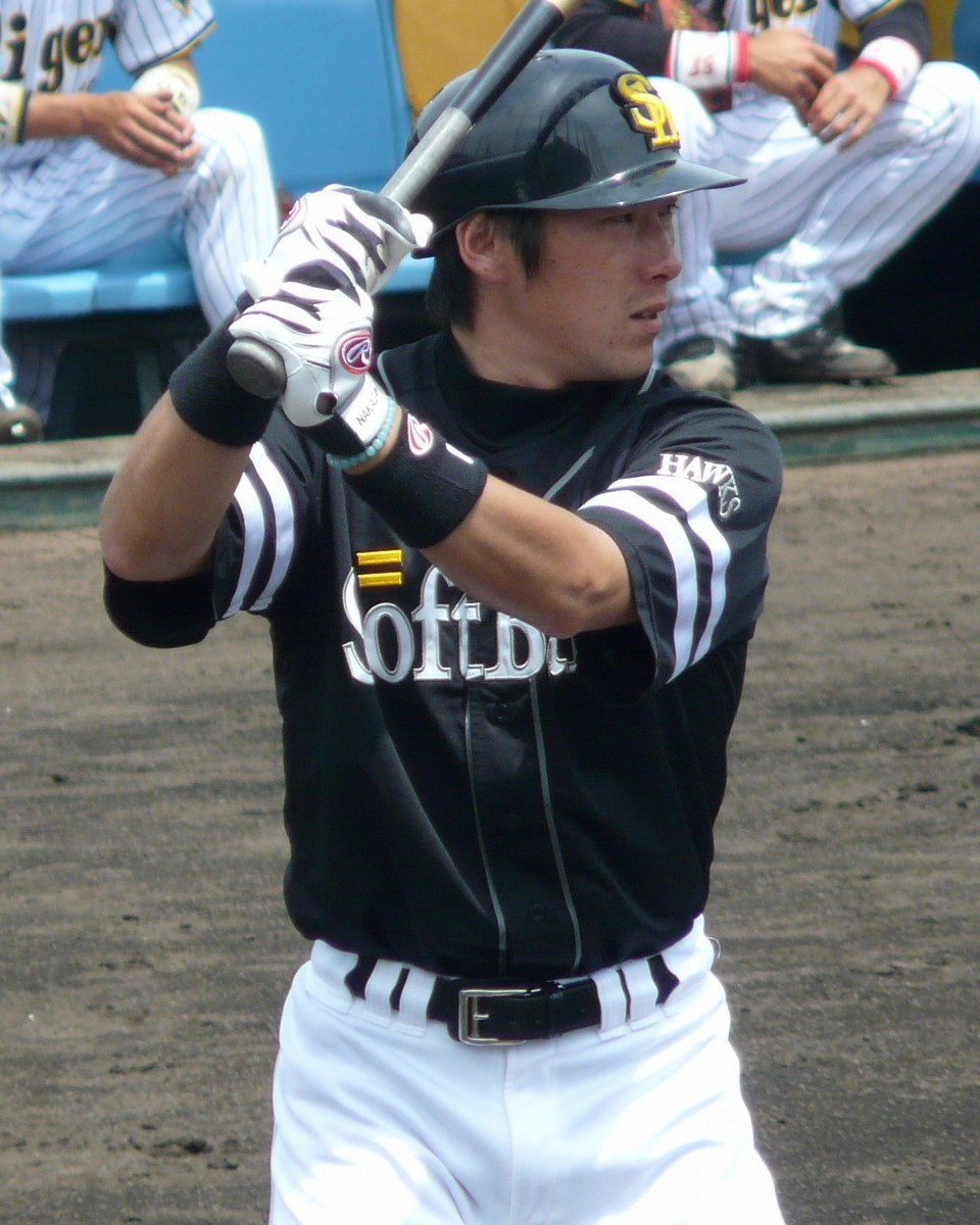 Tadaatsu Nakazawa, infielder of the Fukuoka SoftBank Hawks, at Hanshin Naruohama Baseball Ground.